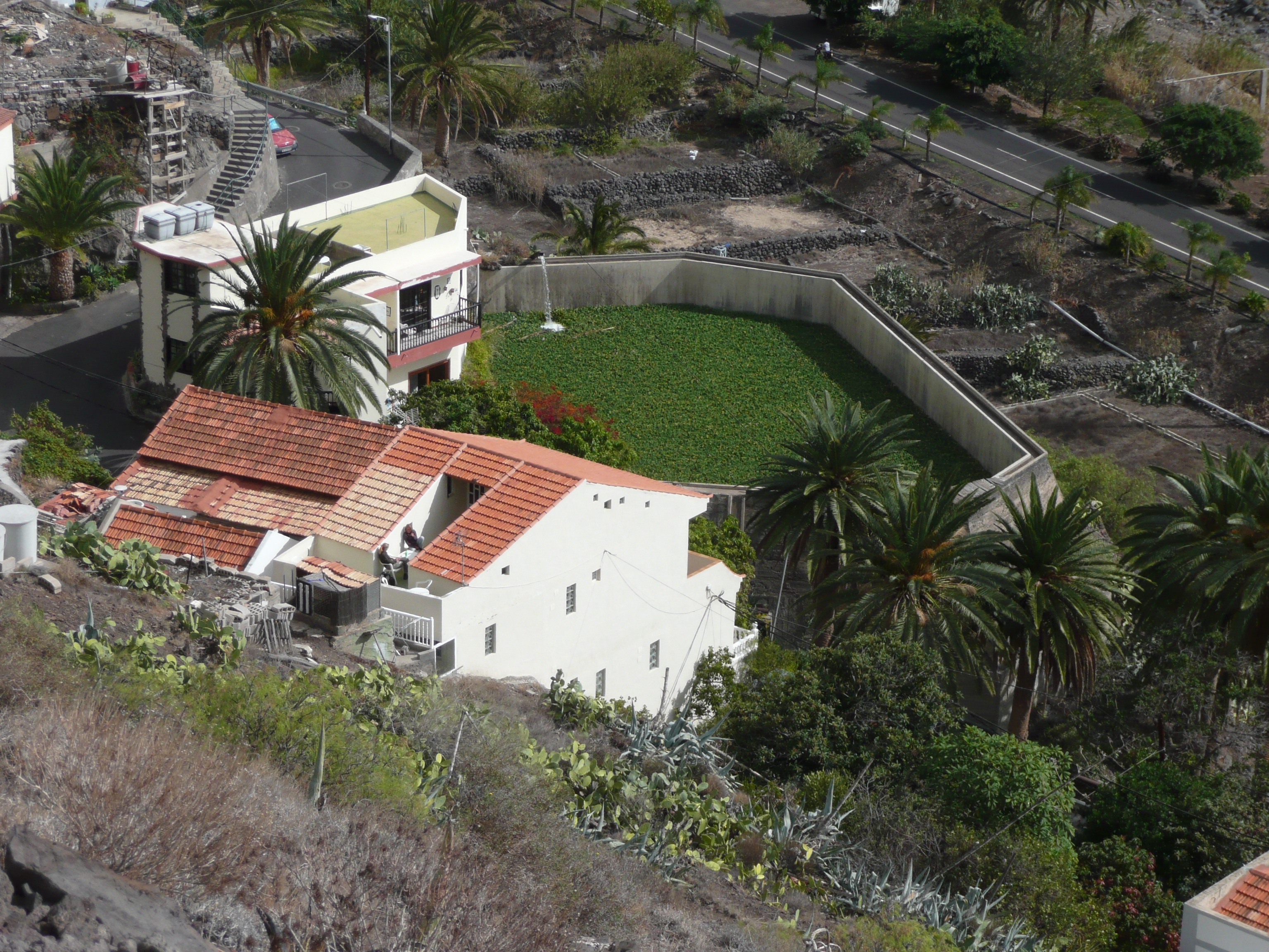 Open reservoir on La Gomera, Valle Gran Rey, Calera